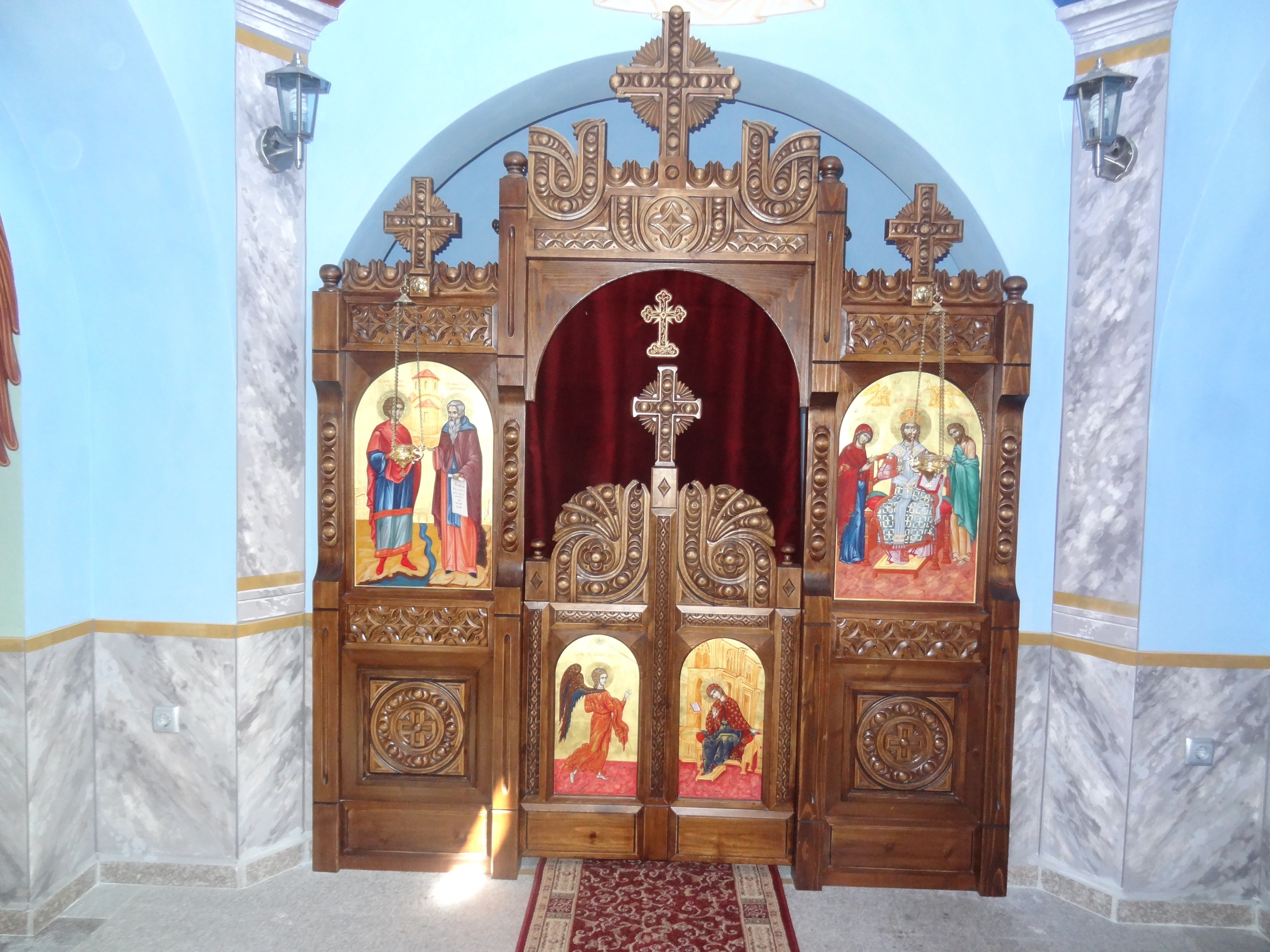 Chapel - 68 brigade